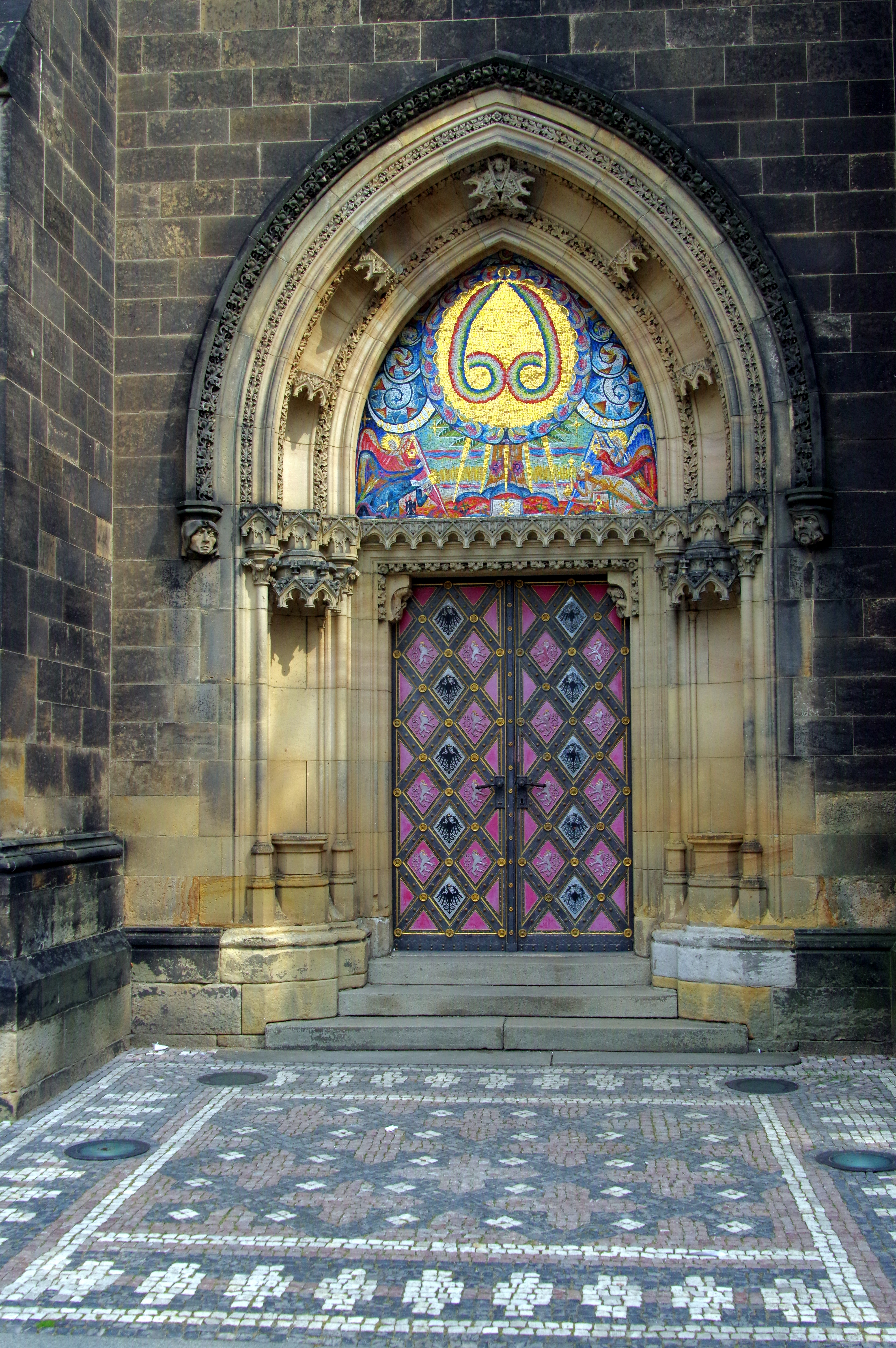 1.9.15 Vysehrad and VyseHratky